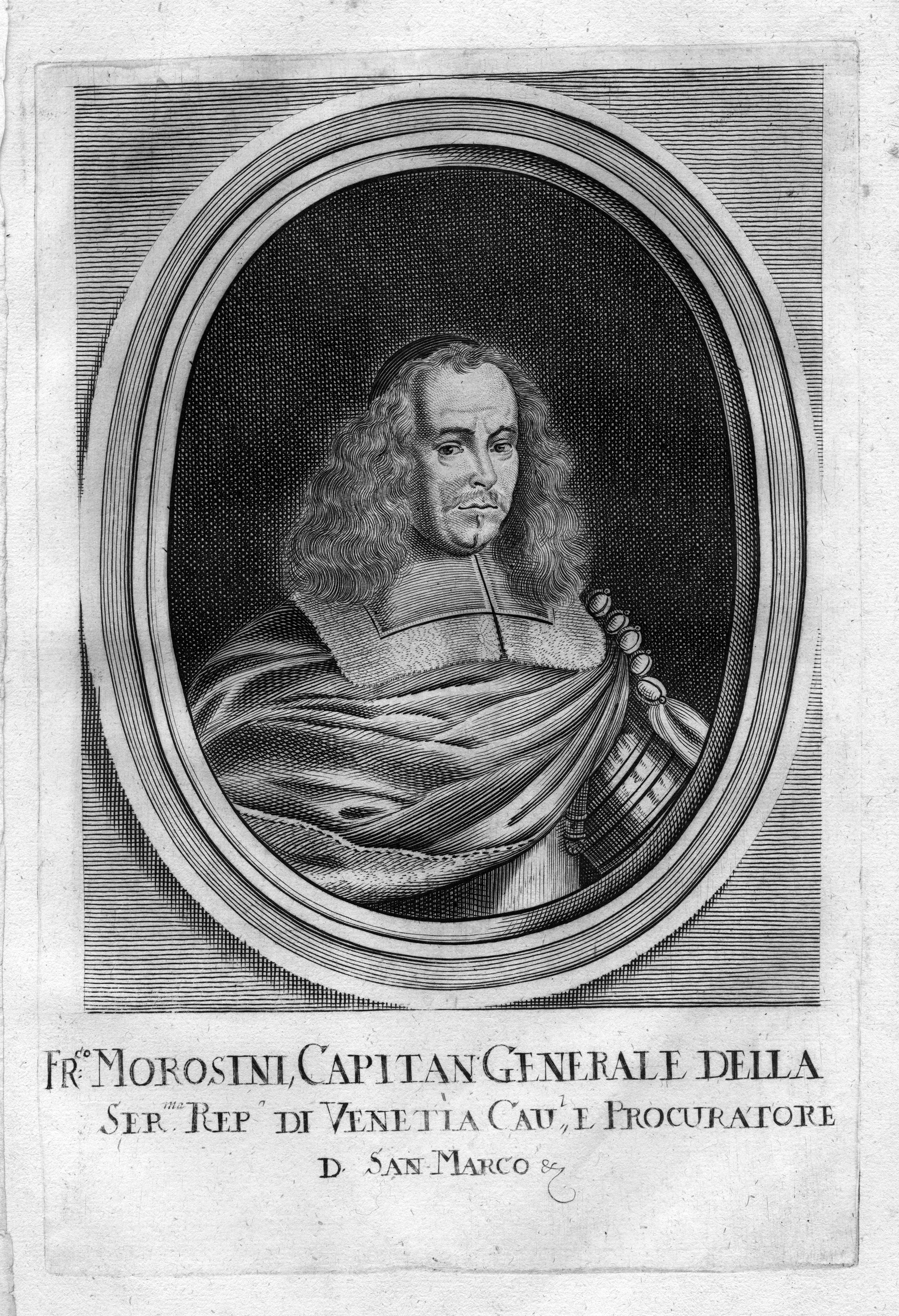 Francesco Morosini (1619-1694)